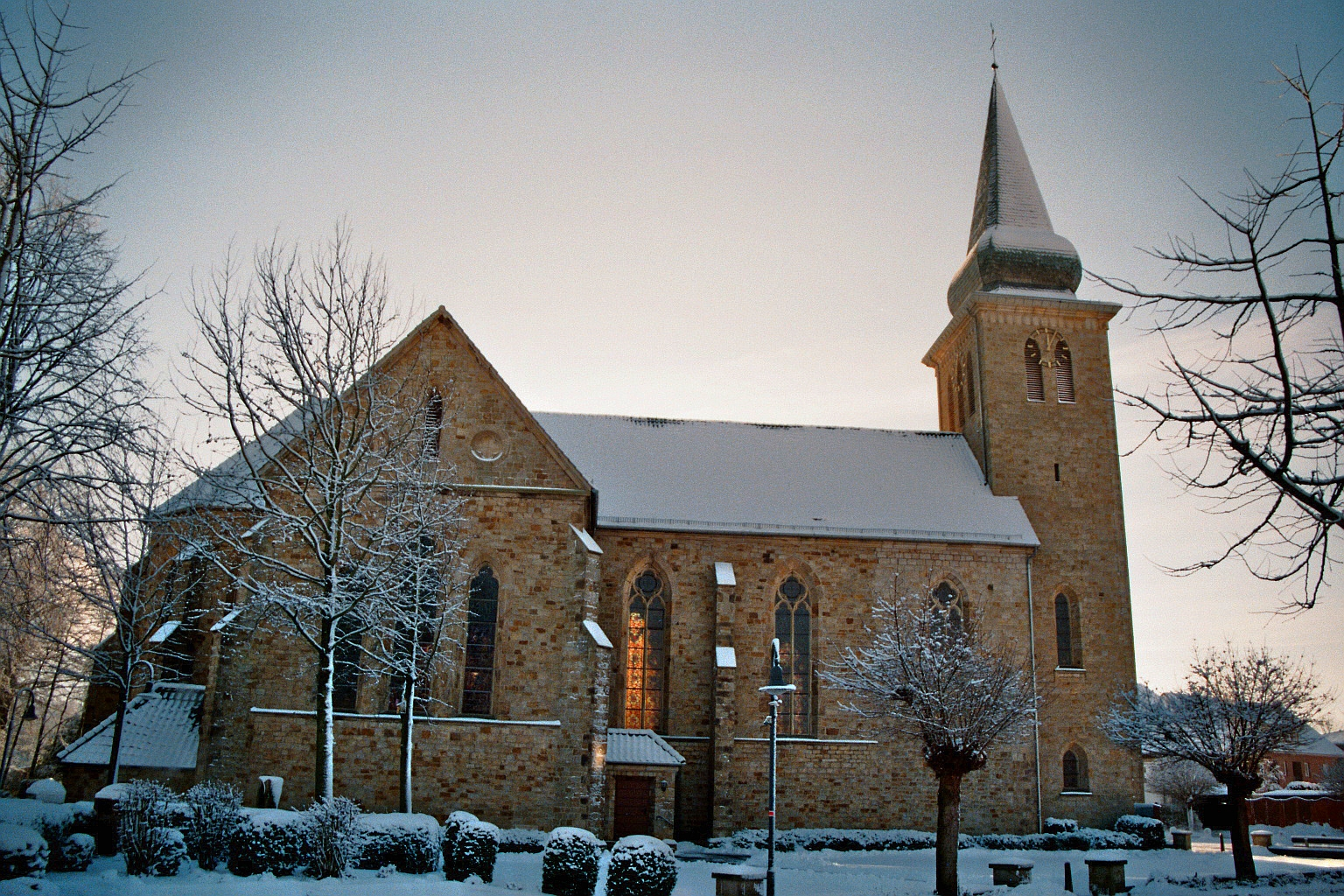 Roman Catholic St. Philippus und Jacobus Church in Recke-Steinbeck, Kreis Steinfurt, North Rhine-Westphalia, Germany.